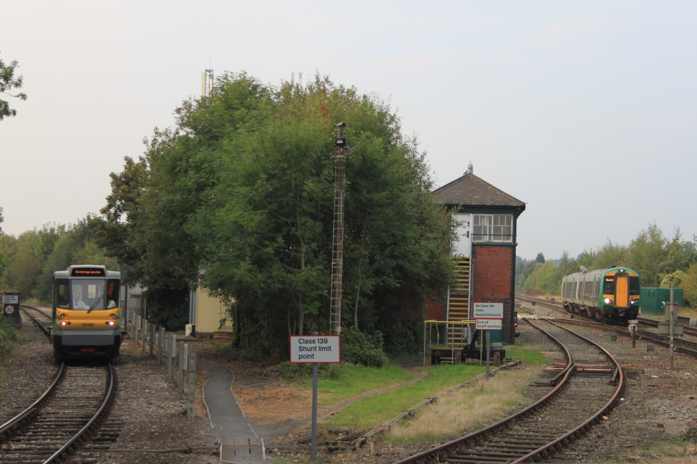 Two London Midland services converge on Stourbridge Junction station. 139001 (left) is on the short branch from Stourbridge Town whereas 172343 has come from the far side of Birmingham.